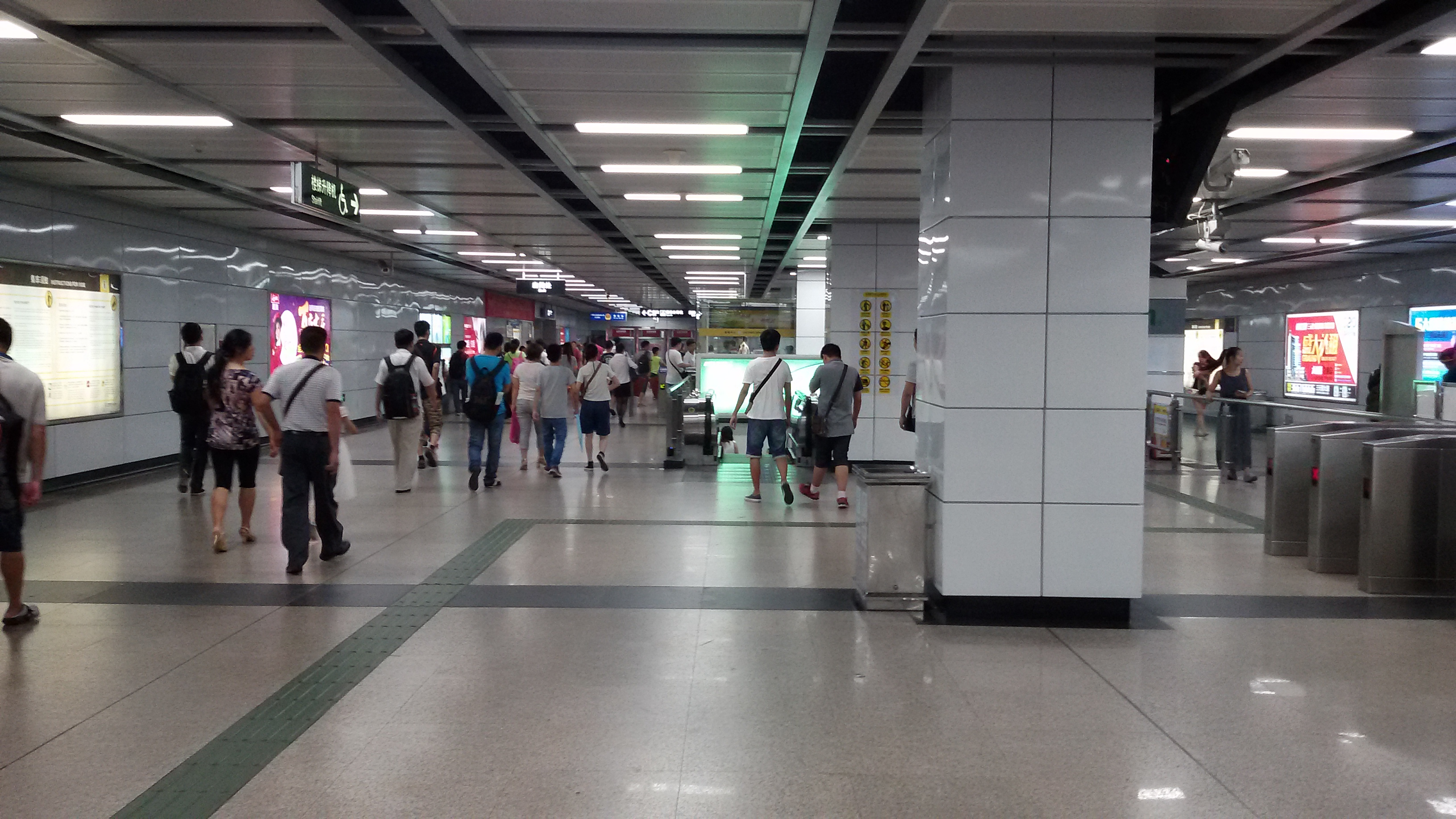 STATION CONCOURSE FOR SANYUANLI STATION 粵語: 三元里站嘅站廳